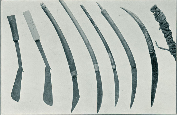 Nivkh hunting tools.